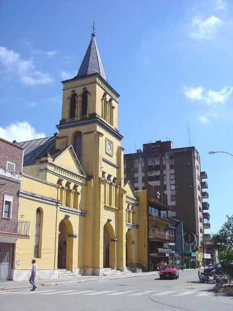 Concepcion de Tucumán Cathedral